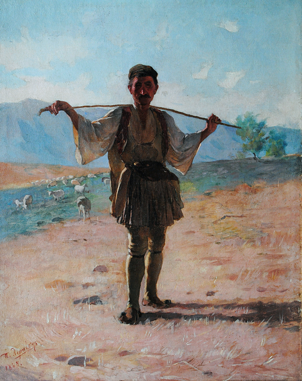 Lebesis Polichronis, The Shepherd , Oil on canvas, 45 x 35 cm, Private collection